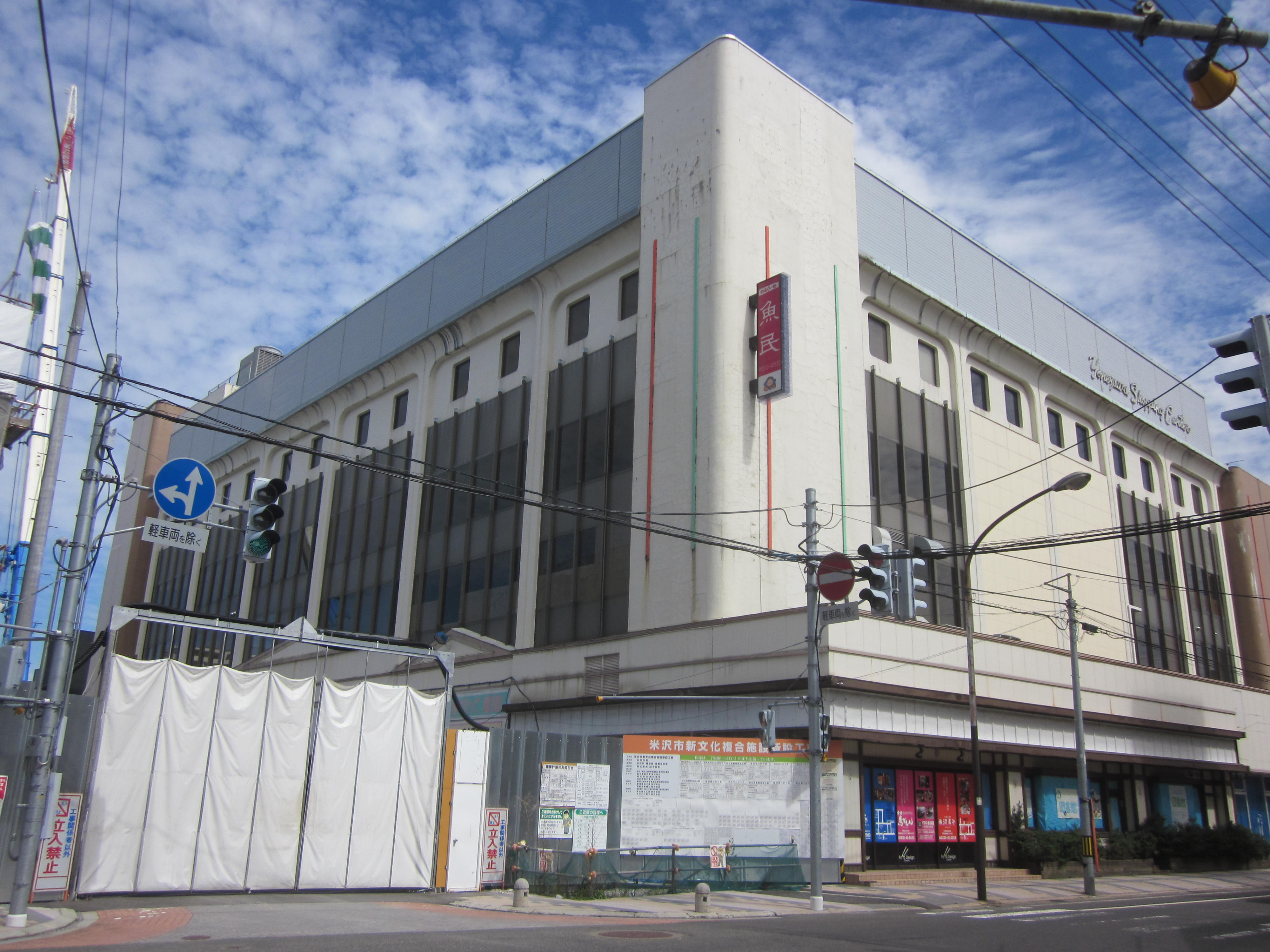 Yonezawa shopping center ( Popolo Yonezawa ) Yonezawa, Yamagata Prefecture center 1-9-20